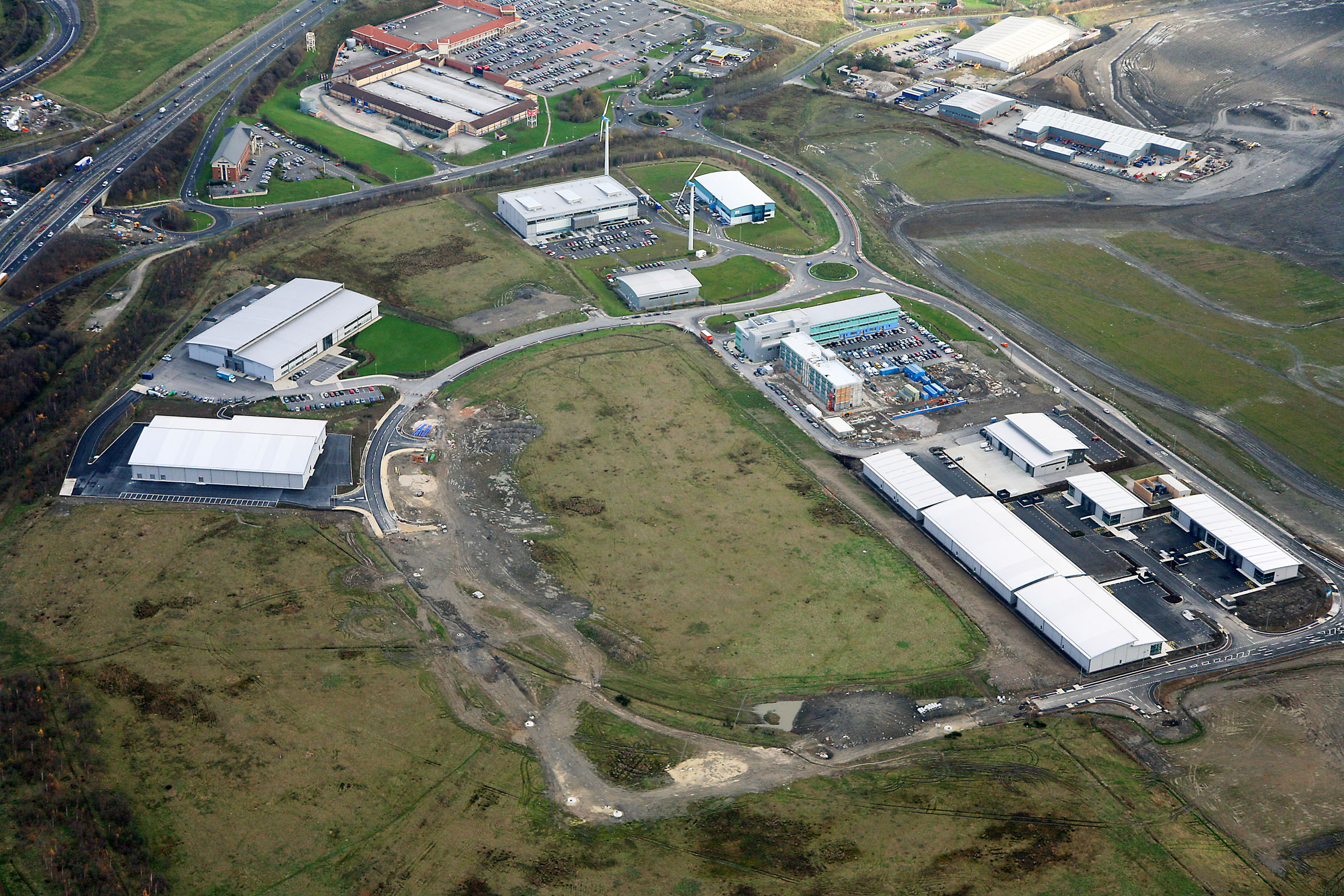 Aerial Photograph of the Advanced Manufacturing Park